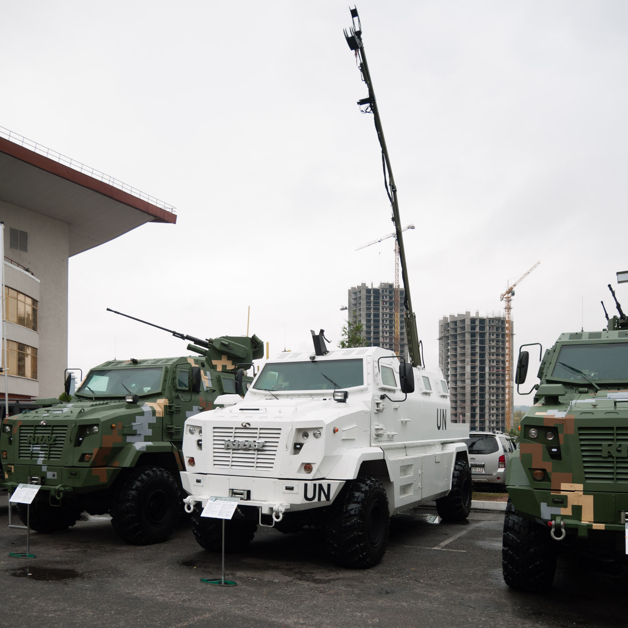 KrAZ Shrek-M (Ukraine)